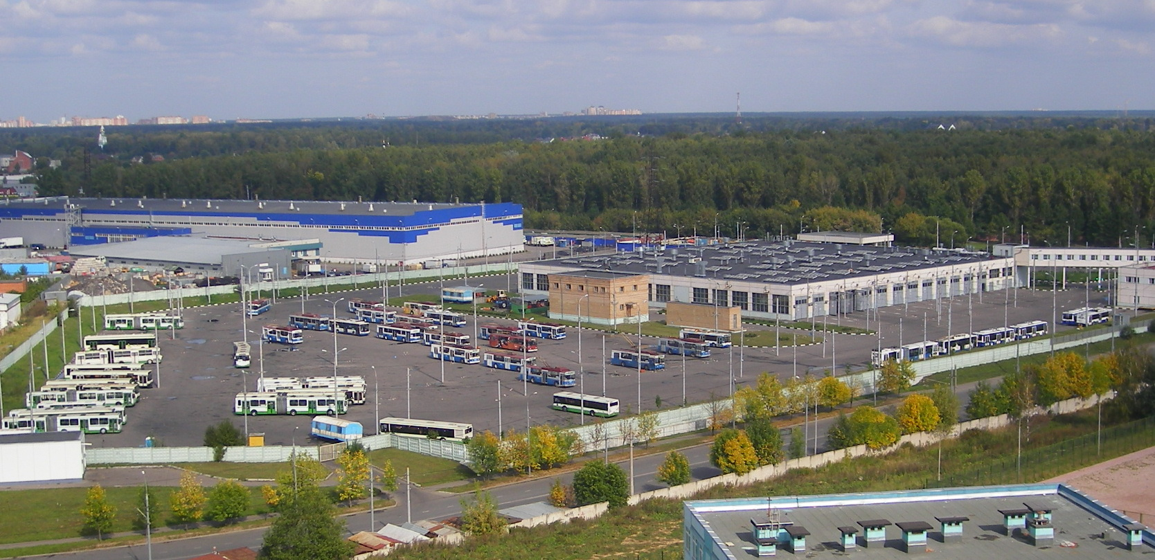 Novokosinsky trolleybus depot in Moscow.